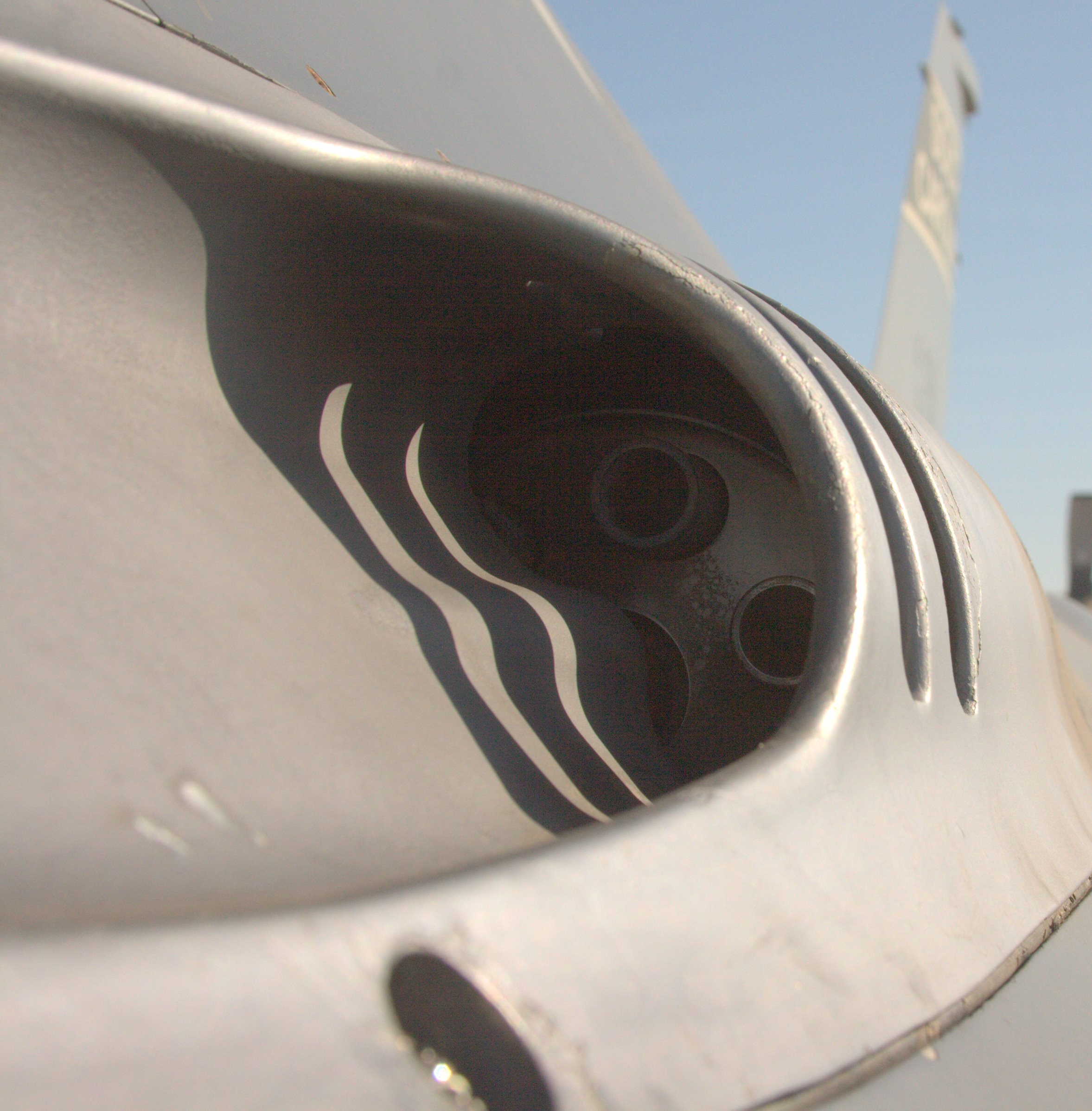 F-16 Vulcan Cannon